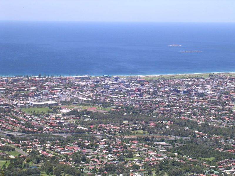 Wollongong city panorama from the Illawara escarpment